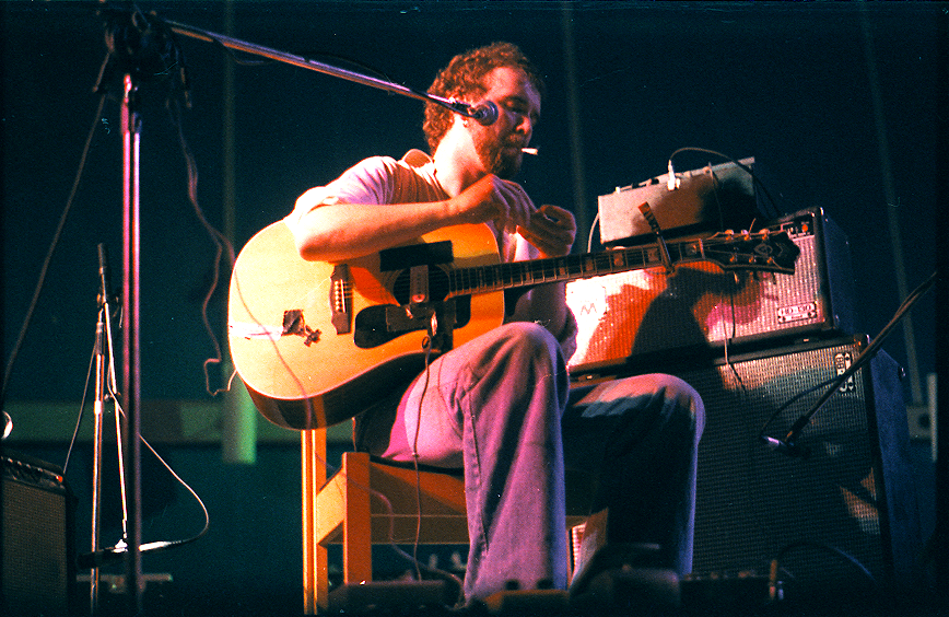 John Martyn lights up a "funny cigarette" at the University of Bristol Students' Union, 1978.